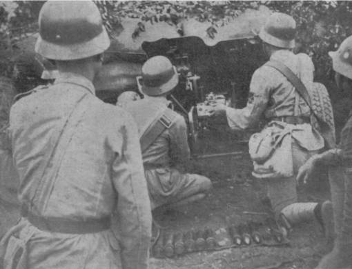 Chinese soldiers manning a 3,7-cm PaK 36.